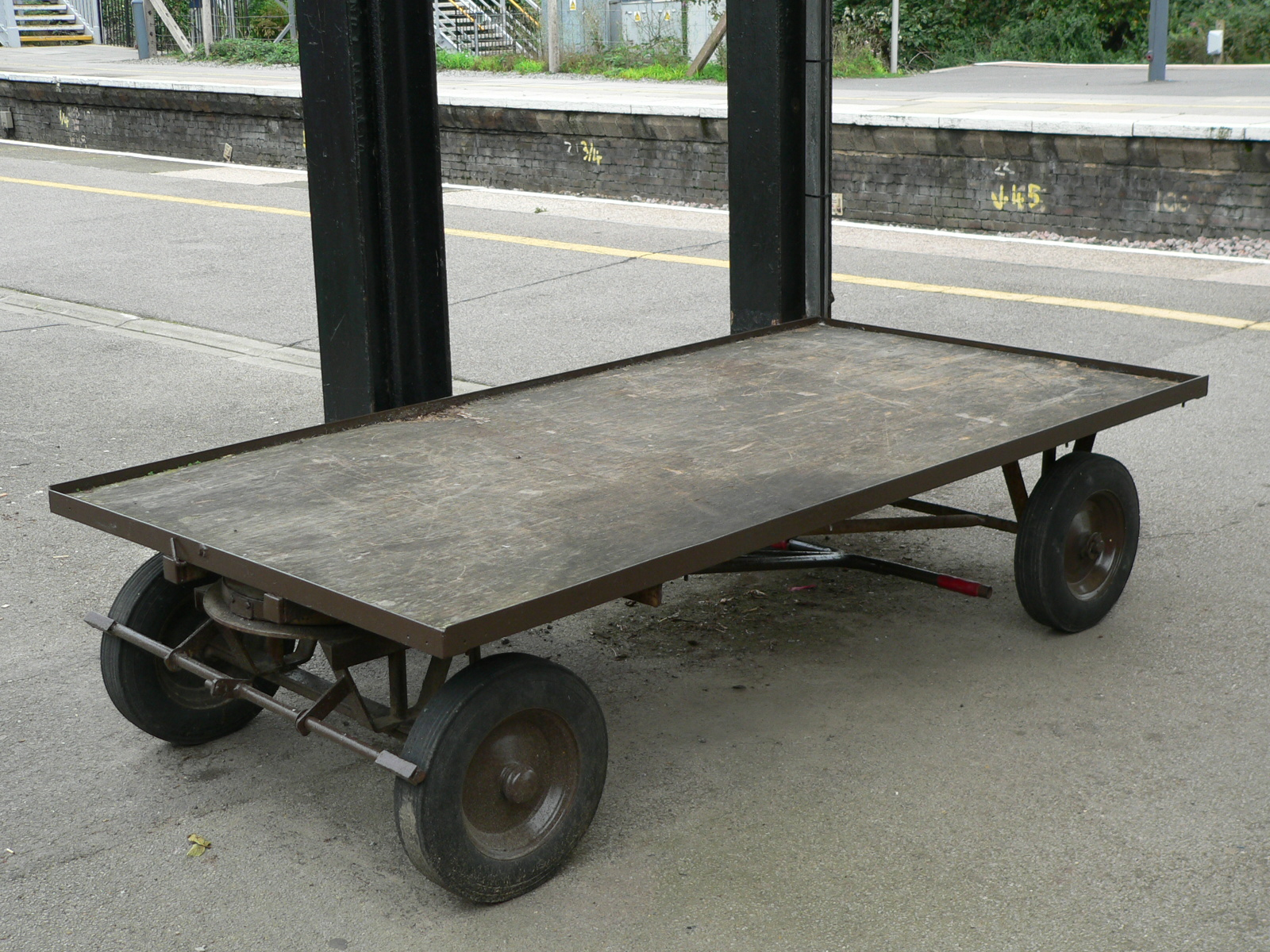 Trolleys like this one at Castle Cary railway station in Somerset are an extremely rare sight these days at British railway stations - a far cry from the abundance in former days when they were used to move luggage, post bags and other small cargo around stations.